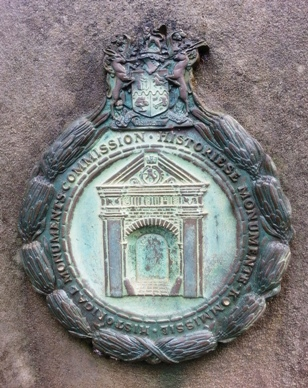 Badge / marker used to mark 'historical monuments' (now 'provincial heritage sites') in South Africa from 1934-1969. Photographed at the Camphor Trees Provincial Heritage Site, Vergelegen Wine Estate Somerset West, South Africa